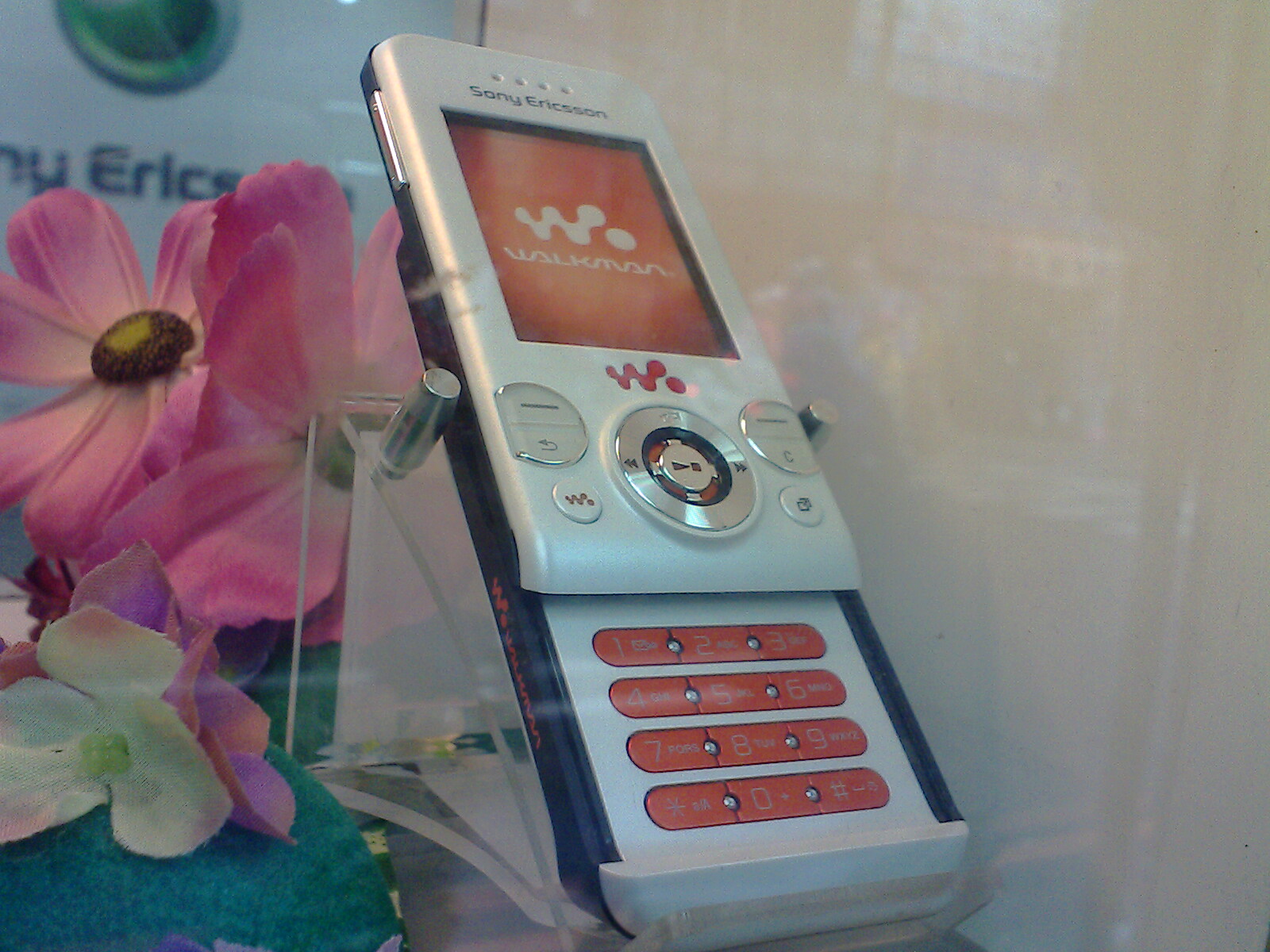 Sony Ericsson W580i